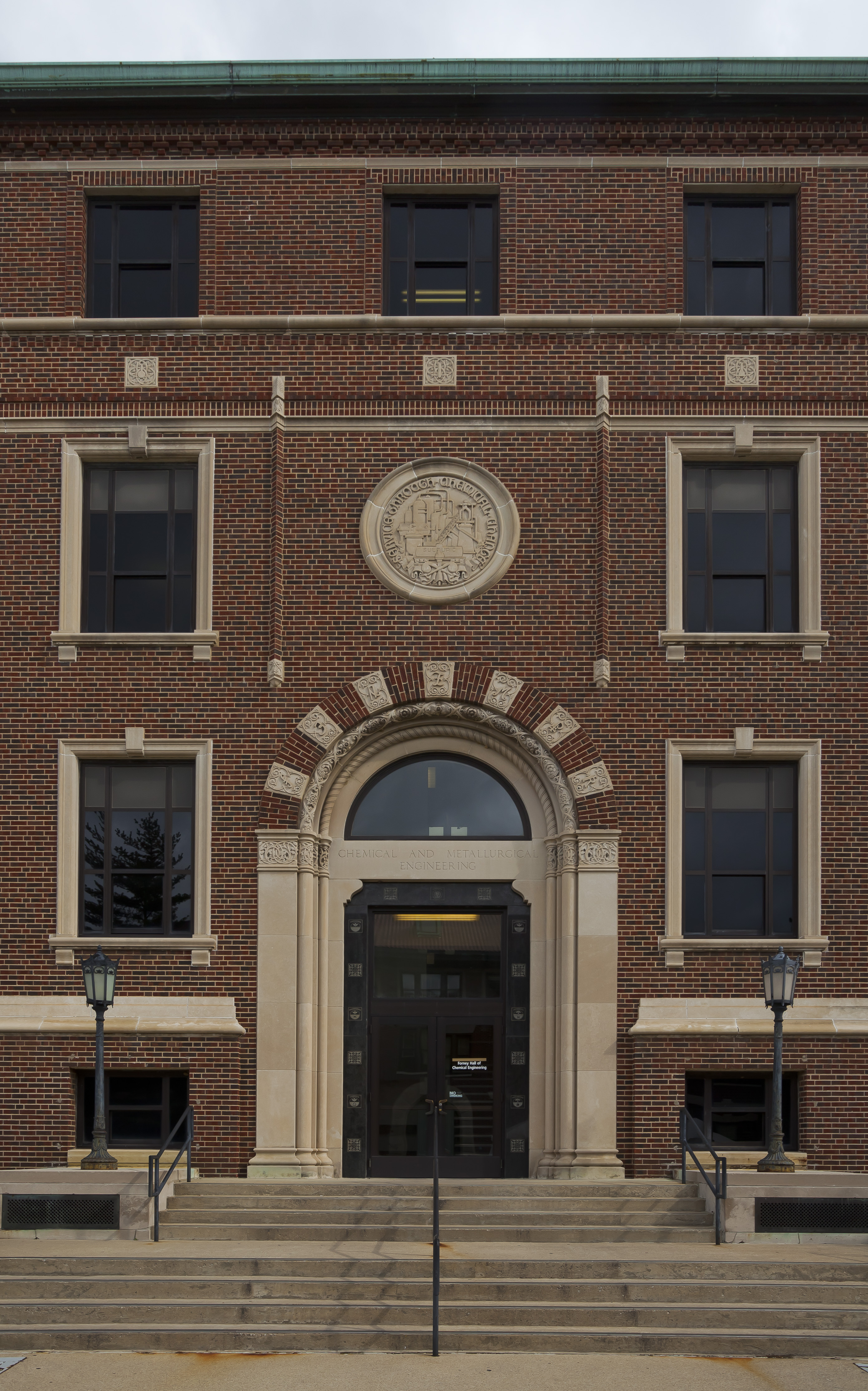 Purdue University, West Lafayette, Indiana, USA